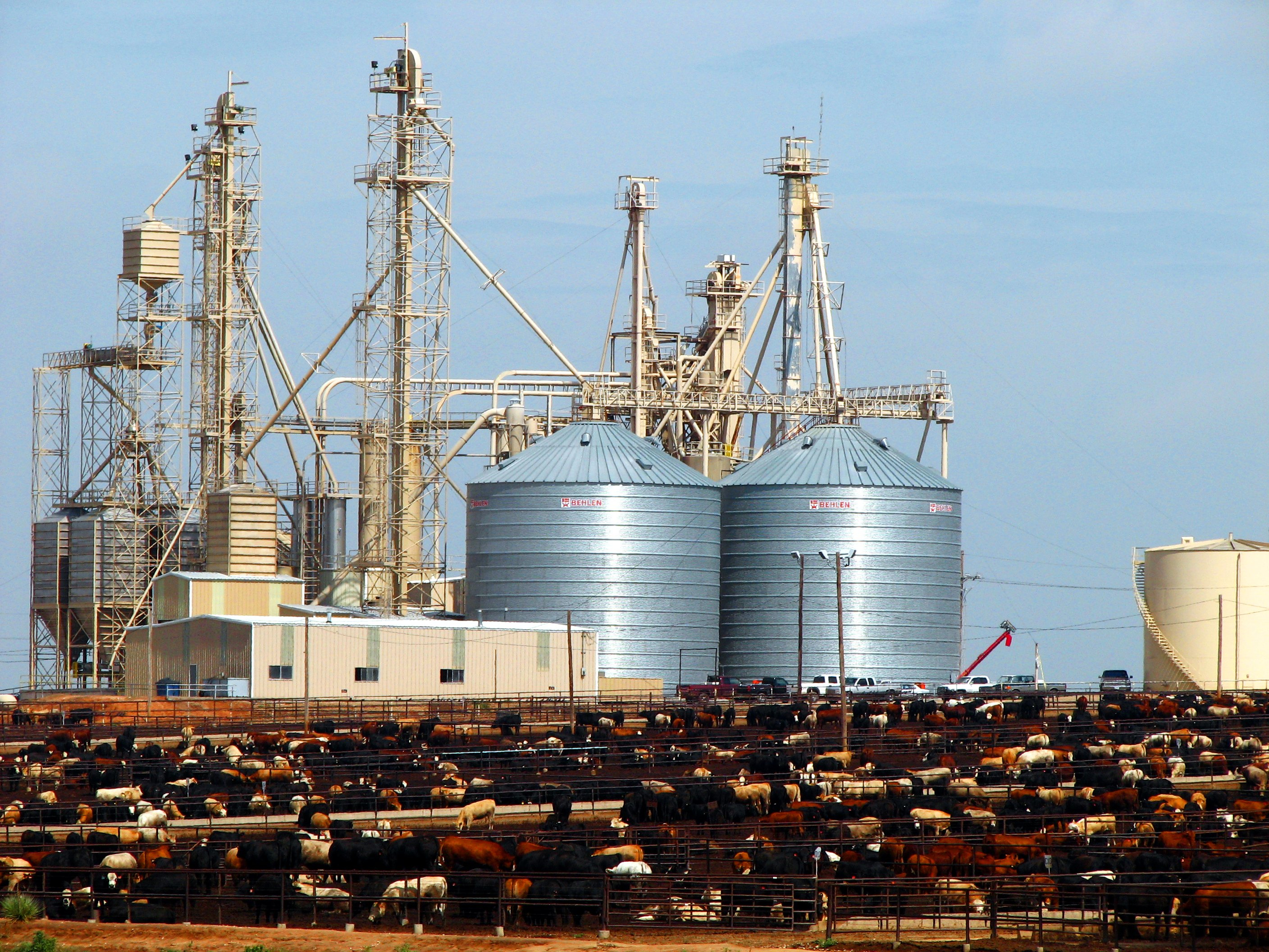 north america, Bovina, Cattle, road trip